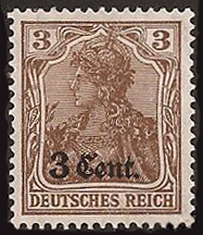 Postage stamp overprint, for use in Belgium and in the parts of France occupied by German empire, 3 centimes, 1916.